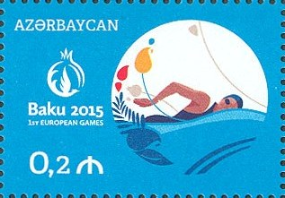 Baku 2015. First European Games.(2nd edition) N 1206 - 20 qapik – Swimming